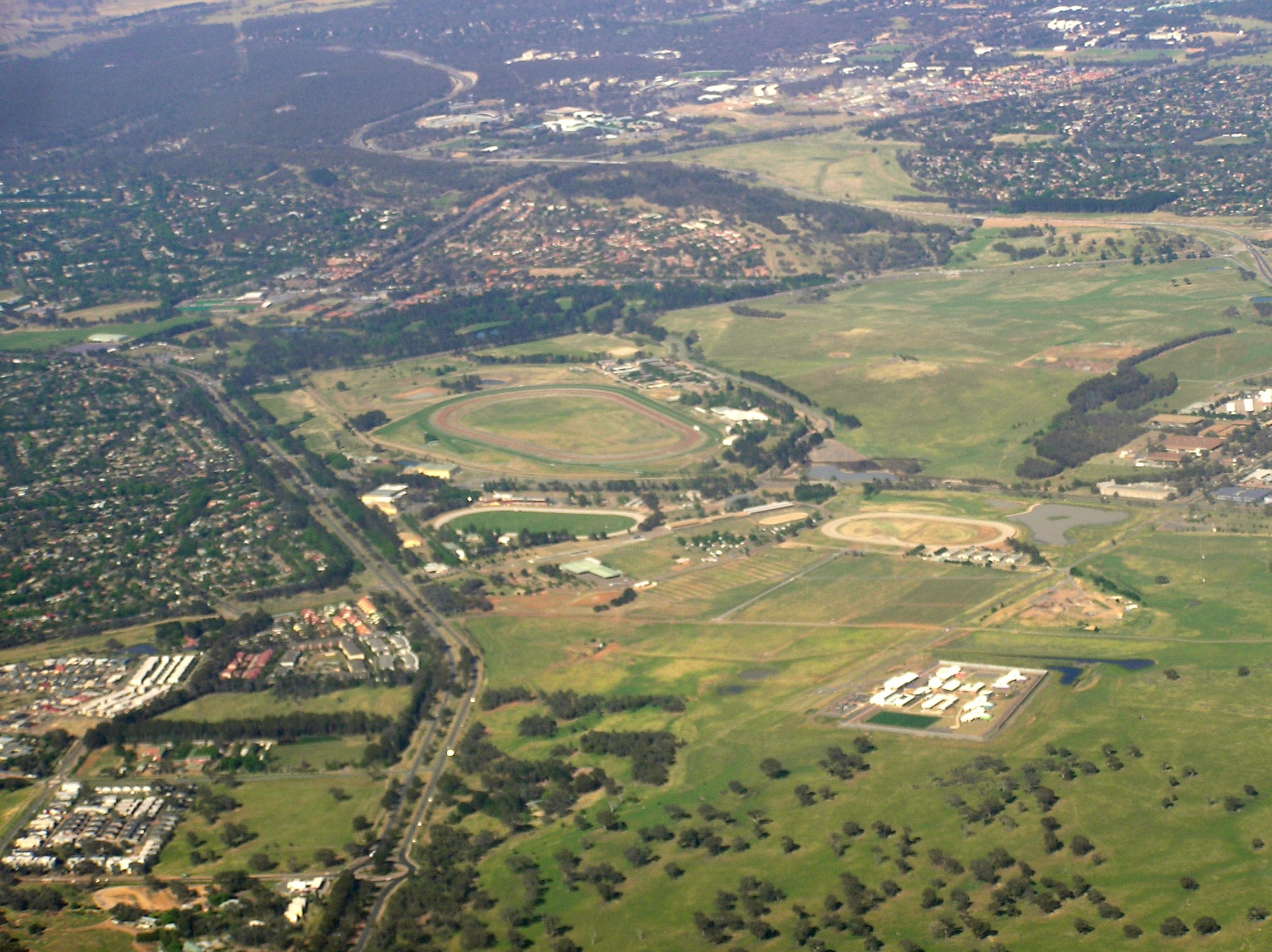 Lyneham Australian Capital Territory, right of the Federal Highway. North Lyneham is mid centre, Kaleen is behind, Canberra Racecourse and Exhibition Park are prominent, part of Lyneham also